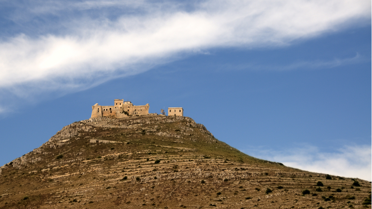 isole egadi sicily. Castle of favignana